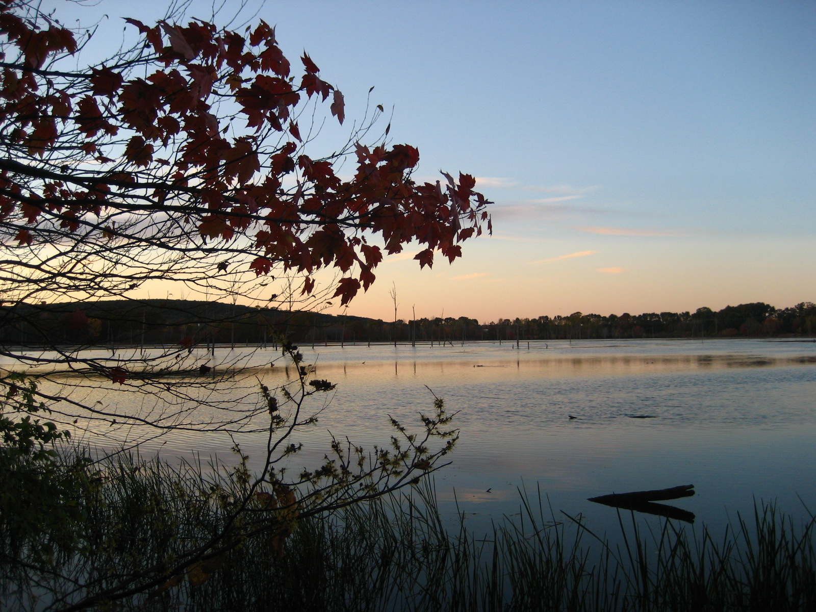 Westborough Reservoir (Mill Pond) during a sunset on October 18, 2008. This pond is in Westborough, Massachusetts, USA.